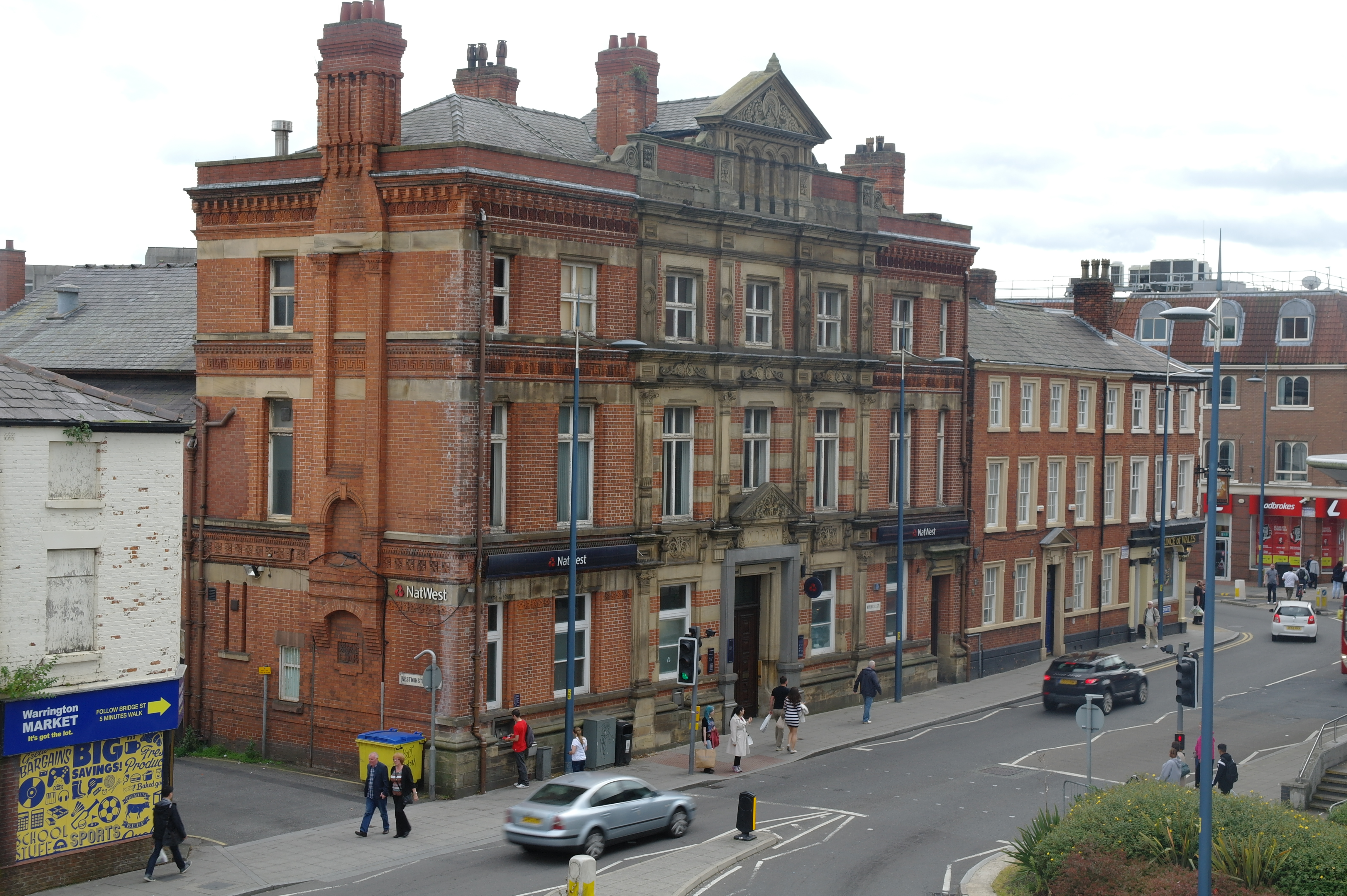 Former Warrington main branch of Parr's Bank, latterly Natwest on Winwick Street.